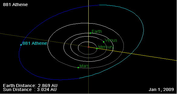 881 Athene orbit, and his position on 01 Jan 2009 (NASA Orbit Viewer applet)